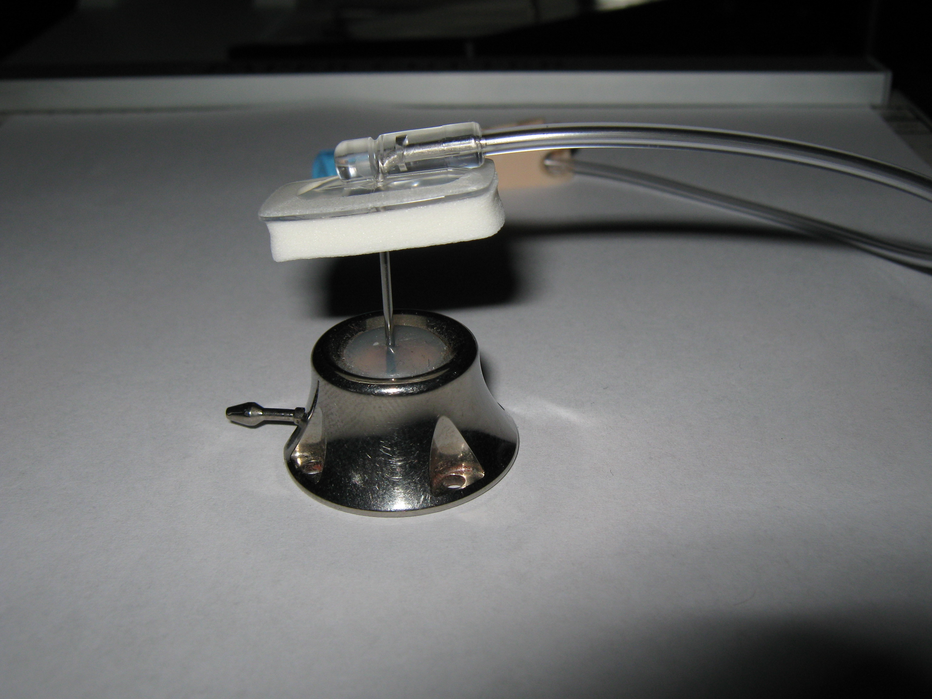 Gripperneedle in a Port-A-Cath